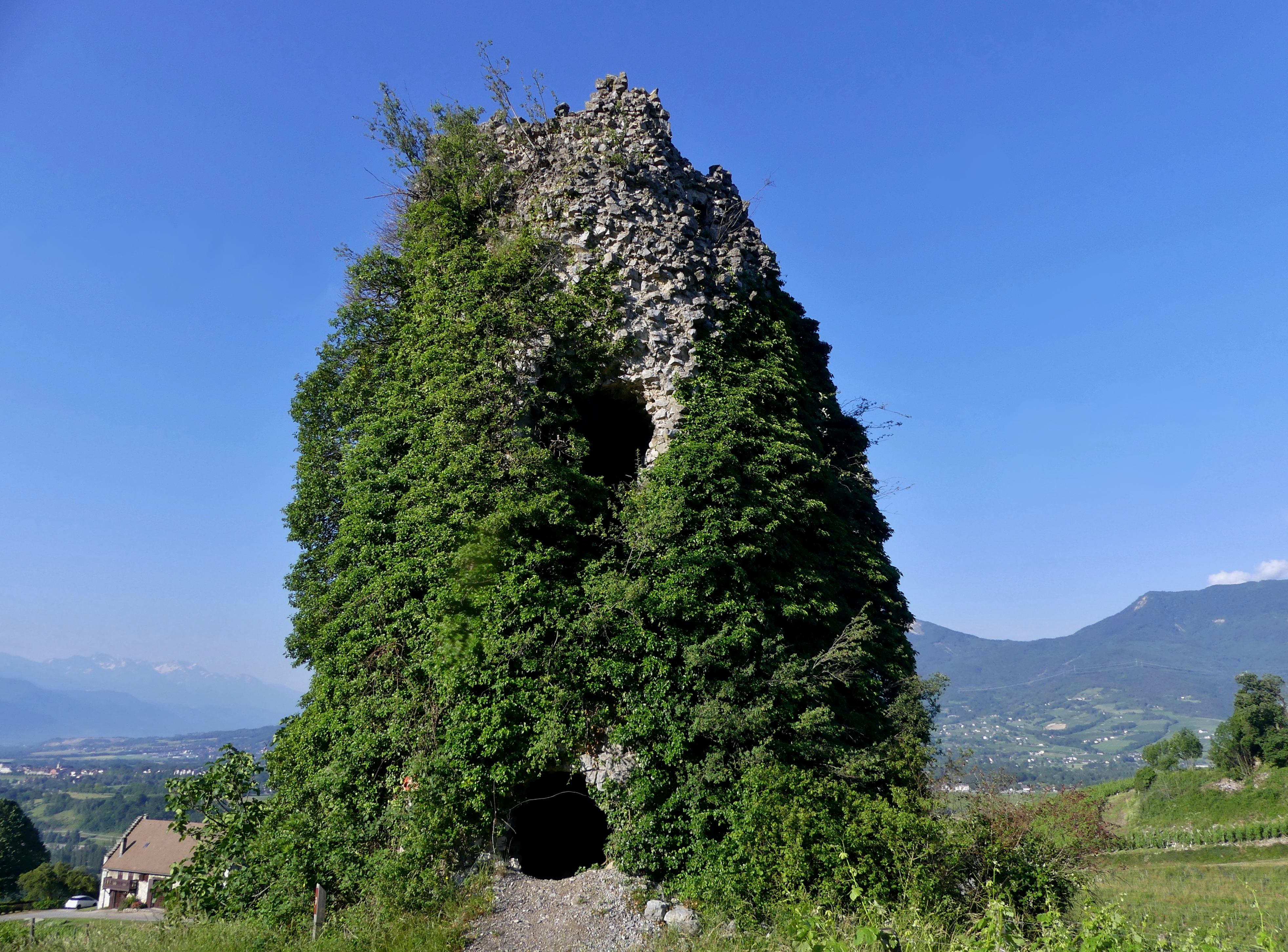 Sight, in the early morning, of Montagny medieval tower of Chignin, in Savoie, France.